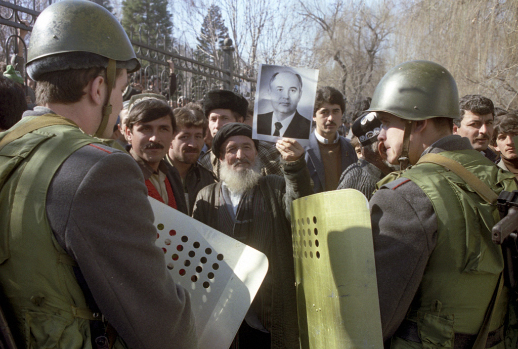 “Dushanbe riots, February 1990”. Dushanbe riots, February 10-17, 1990. Martial law is imposed in the city.